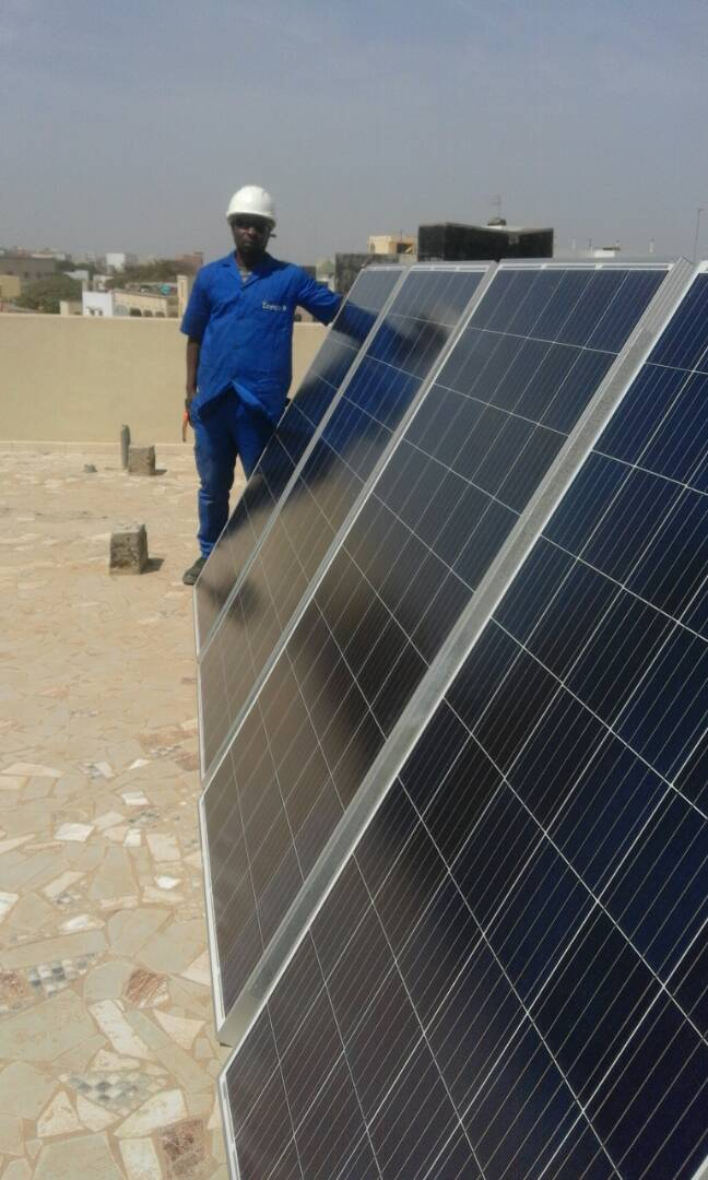 Expansion des Pme Dans le Secteur du Solaire en Afrique. This is an image with the theme "Africa on the Move or Transport" from: Senegal